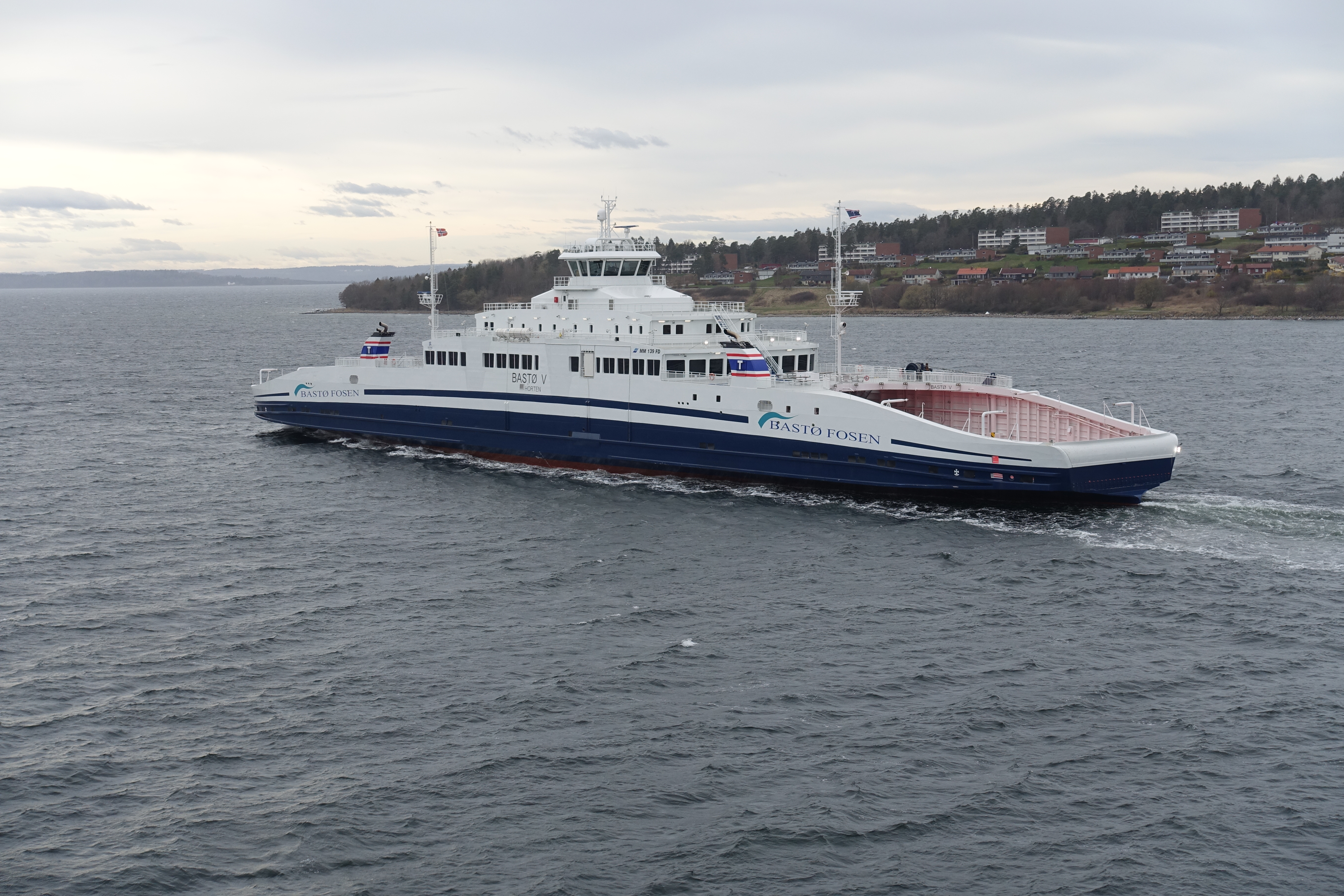 The ferry Bastø V (2017) leaving Moss, Norway, trial run before ordinary service